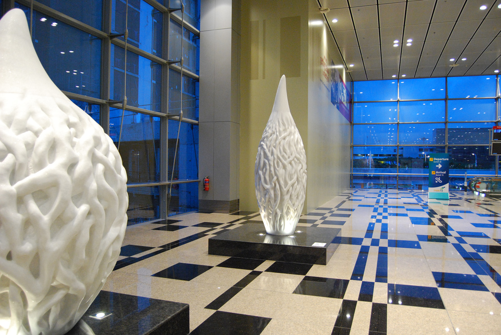 Singaporean sculptor Han Sai Por's sculpture Flora Inspiration, located at Singapore Changi Airport Terminal 3.